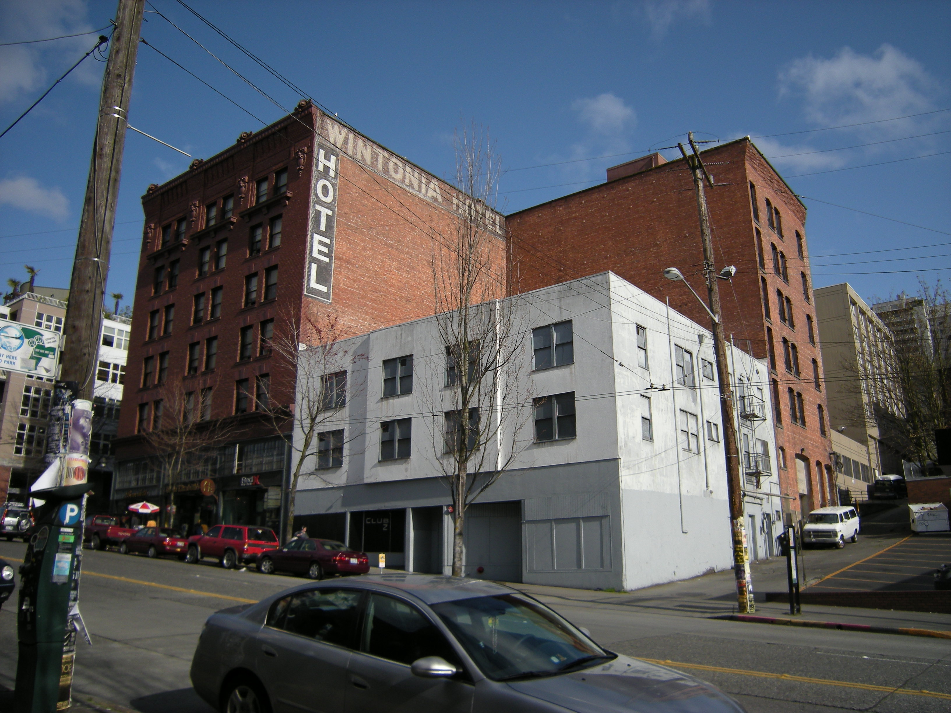 The Wintonia Apartments, originally Wintonia Hotel, commonly "The Wintonia", 1431 Minor Ave, Seattle, Washington, USA and (partly surrounded by the Wintonia) Club Z, 1117 Pike Street. The Wintonia Hotel has city landmark status. It is now transitional housing for individuals coming from emergency housing and shelter programs or directly from the streets. Of its 90 units, 45 are reserved for previously homeless men and women who are disabled by chronic alcoholism. It stands as a reasonably unusual program, in that it works with alcoholics without demanding sobriety as a first step. For the Club Z, see Christopher Frizelle, Bleak House, The Stranger, April 12, 2006. That story expected this building to be demolished soon; it wasn't. And I believe that story (by a gay man writing in a quite gay-friendly newspaper) fully justifies my adjective "infamous". The Wintonia is basically on the border between Capitol Hill and First Hill. Pretty much everyone would consider Club Z to be Capitol Hill, but more because of its nature than its location.